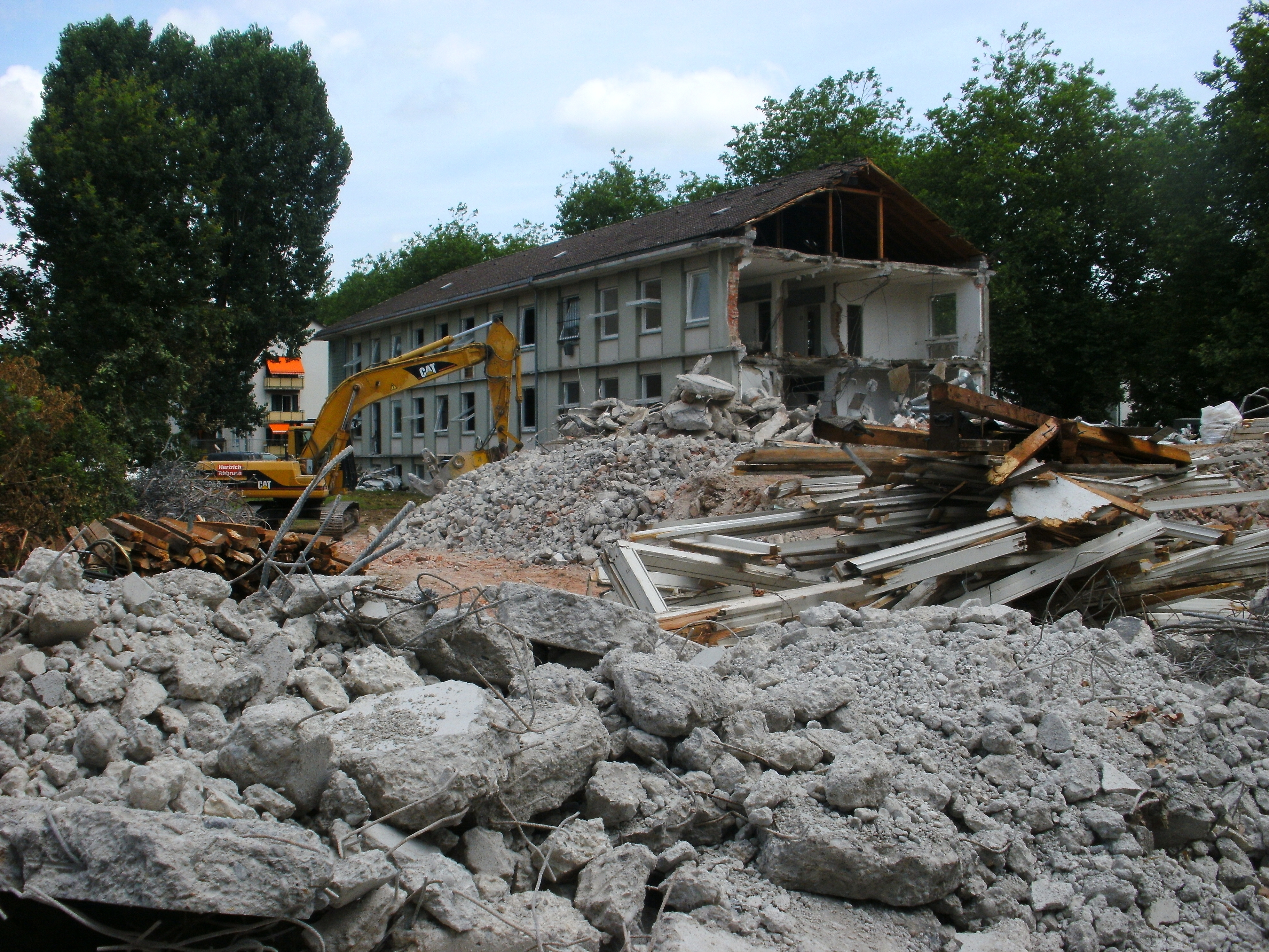 Demolition of the former College of Education in Lörrach, Germany.